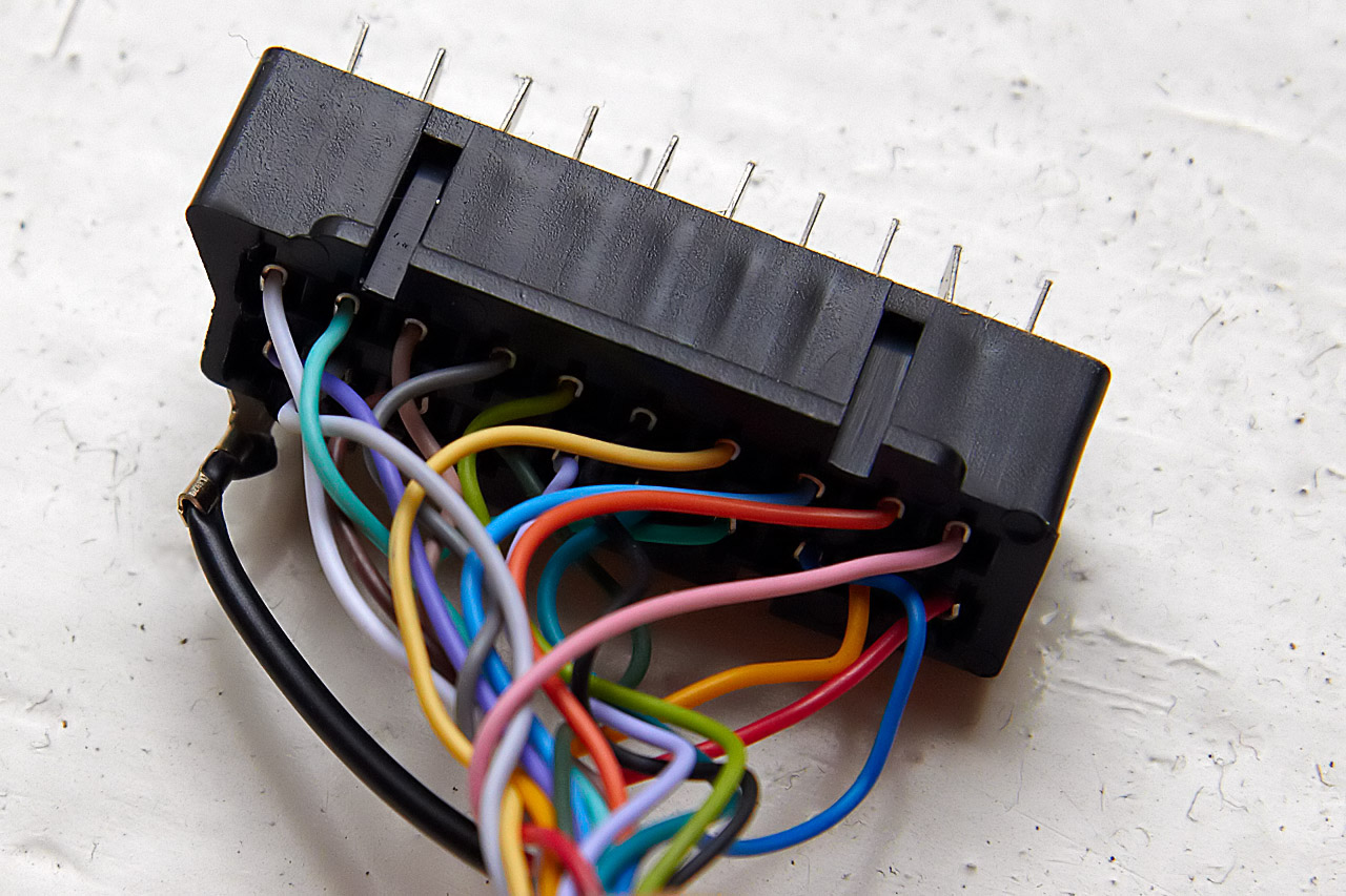 A SCART cable consists of 21 wires.